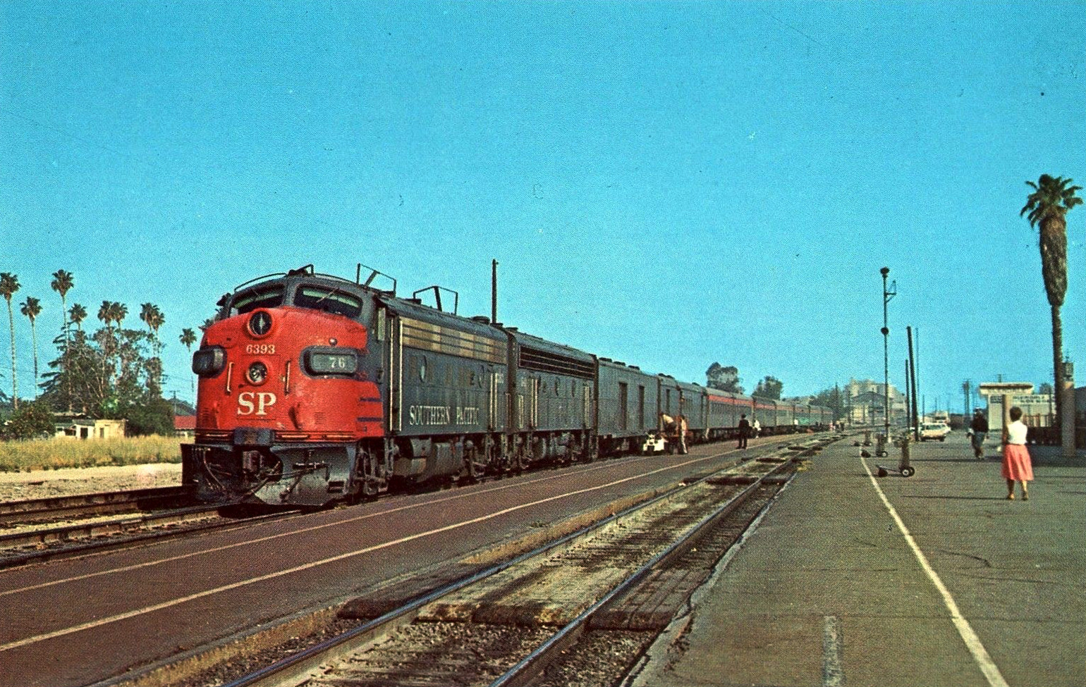 Postcard photo of the Southern Pacific train The Lark at Glendale, California going south. The train was discontinued in 1968.